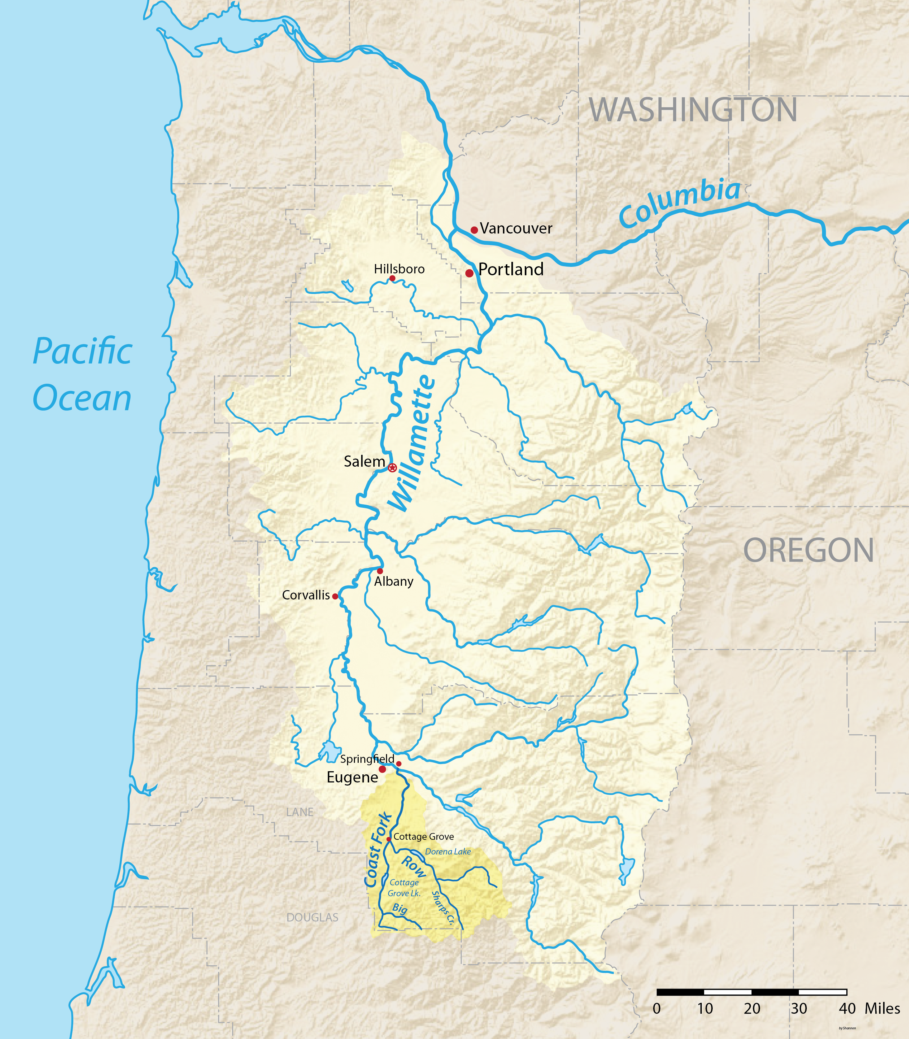 Map of the Willamette River basin in Oregon, USA with the Coast Fork tributary highlighted. Made using USGS National Map data.